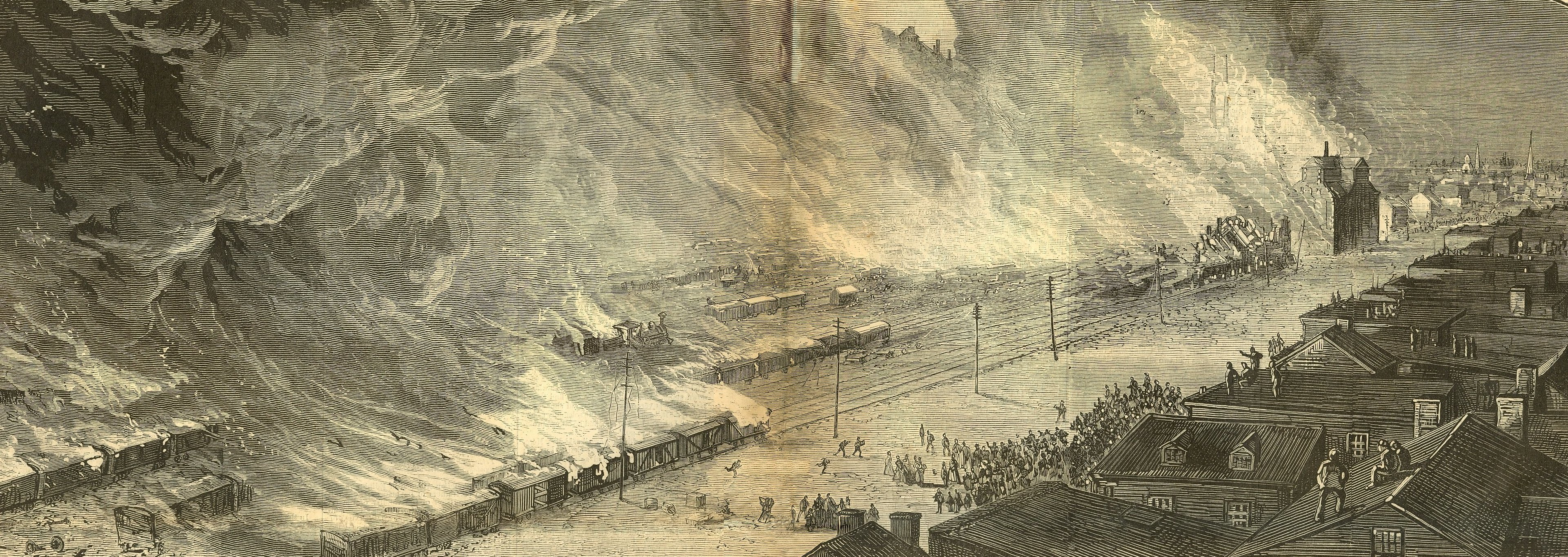 "A Steeple-View of the Pittsburgh Conflagration"; engraving showing the burning of Union Depot and Pennsylvania Railroad yards, Pittsburgh, PA during Great railroad strike of 1877